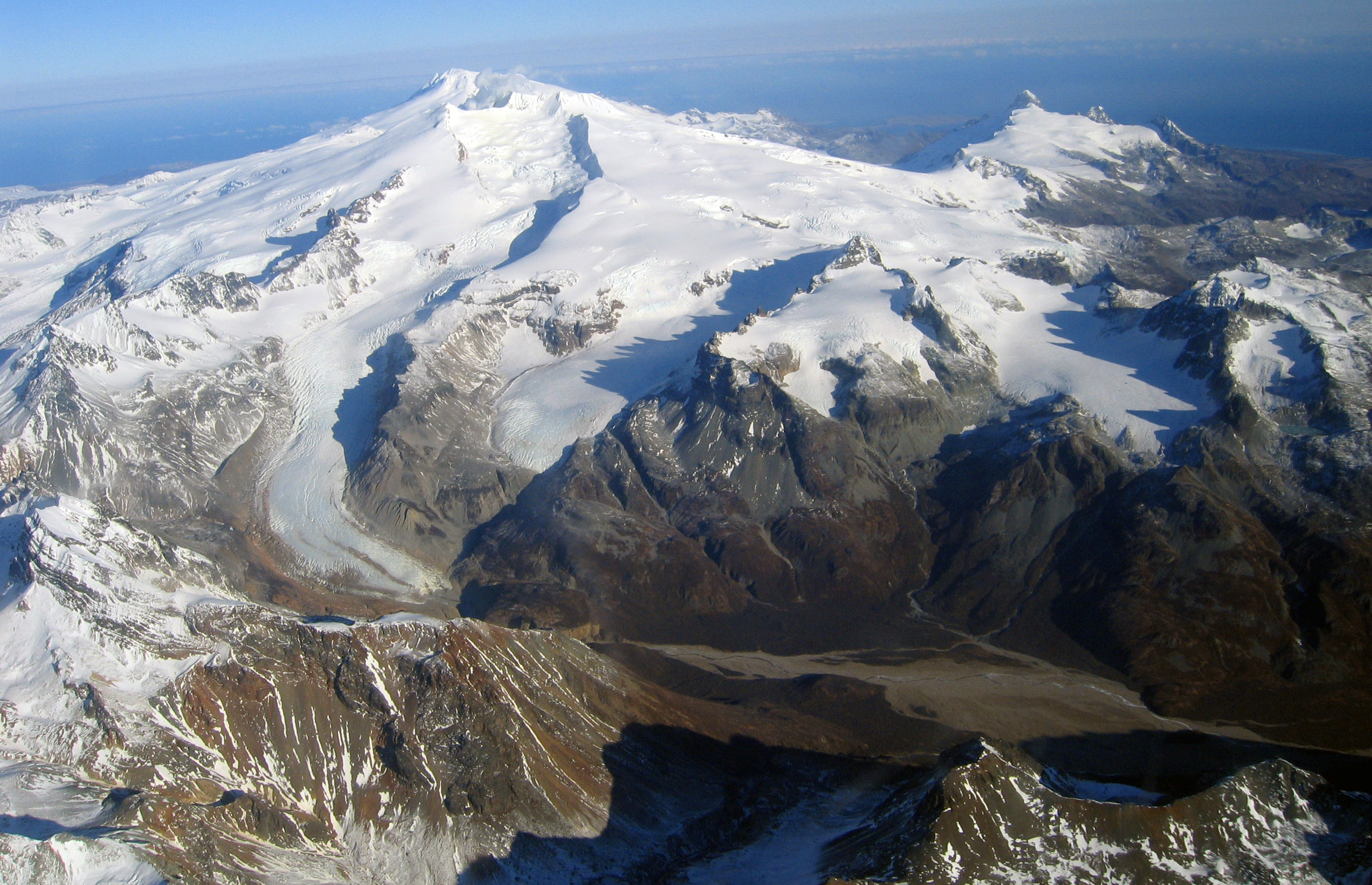 The southern flank of Fourpeaked volcano